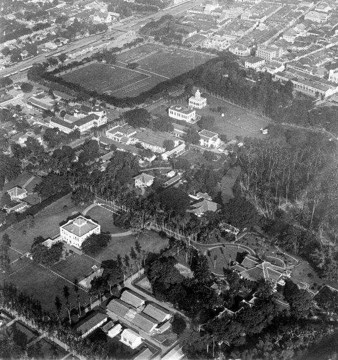 Air photo of Medan